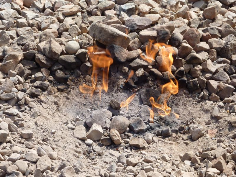 Chu Huo in Kenting, Taiwan.